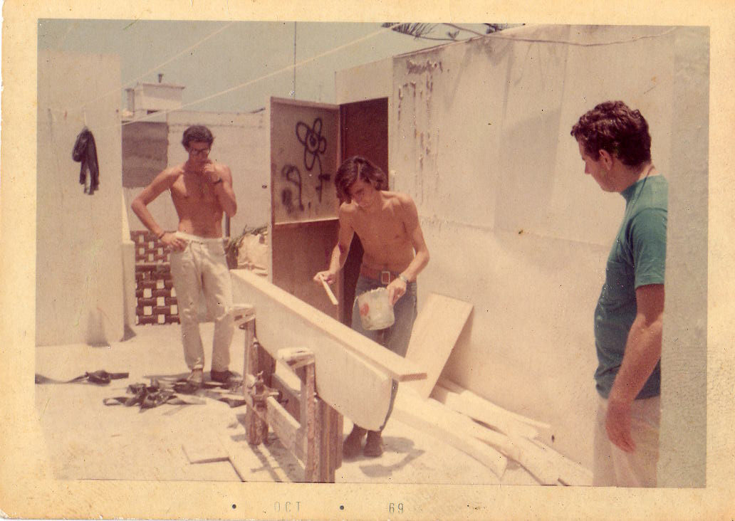 First surfboard Factory in Peru 1969, Aldo Fosca, Guillermo Letts, Wayo Whilar